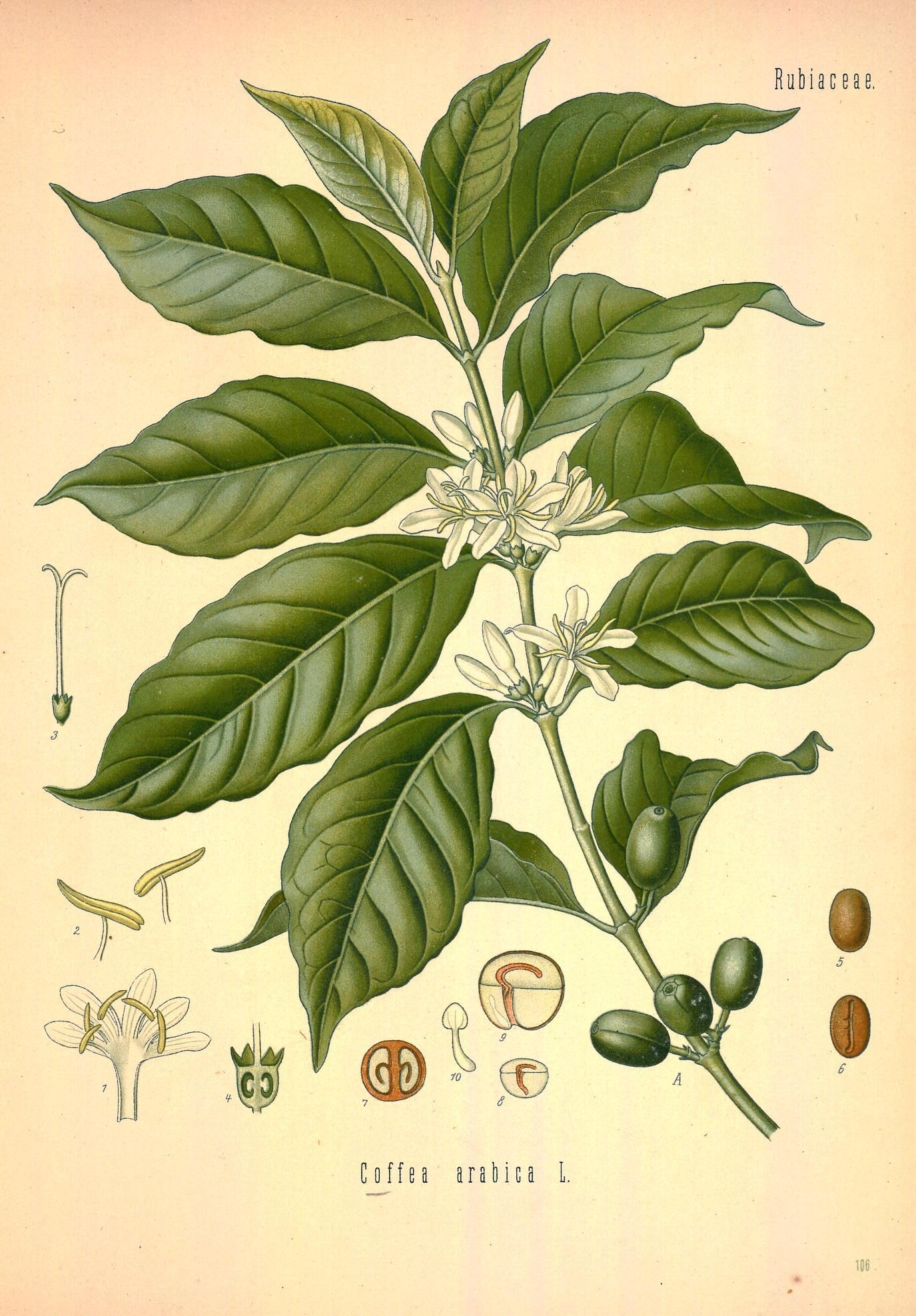 Illustration of COFFEA arabica L. 106 (Coffea arabica L., Arabian coffee) Köhler's Medizinal-Pflanzen in naturgetreuen Abbildungen mit kurz erläuterndem Texte : Atlas zur Pharmacopoea germanica